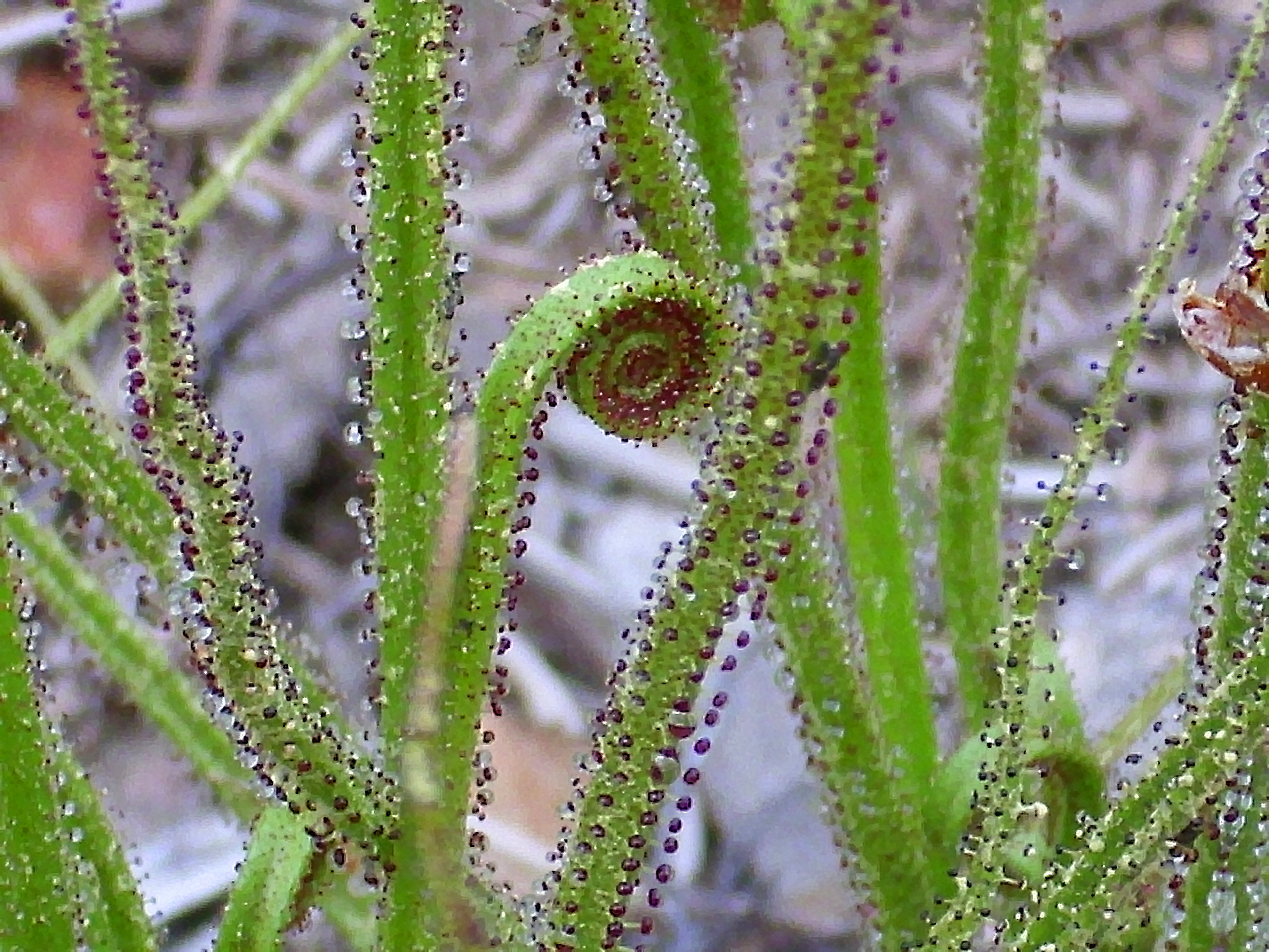 Drosophyllum lusitanicum close up, Sierra Madrona, Spain